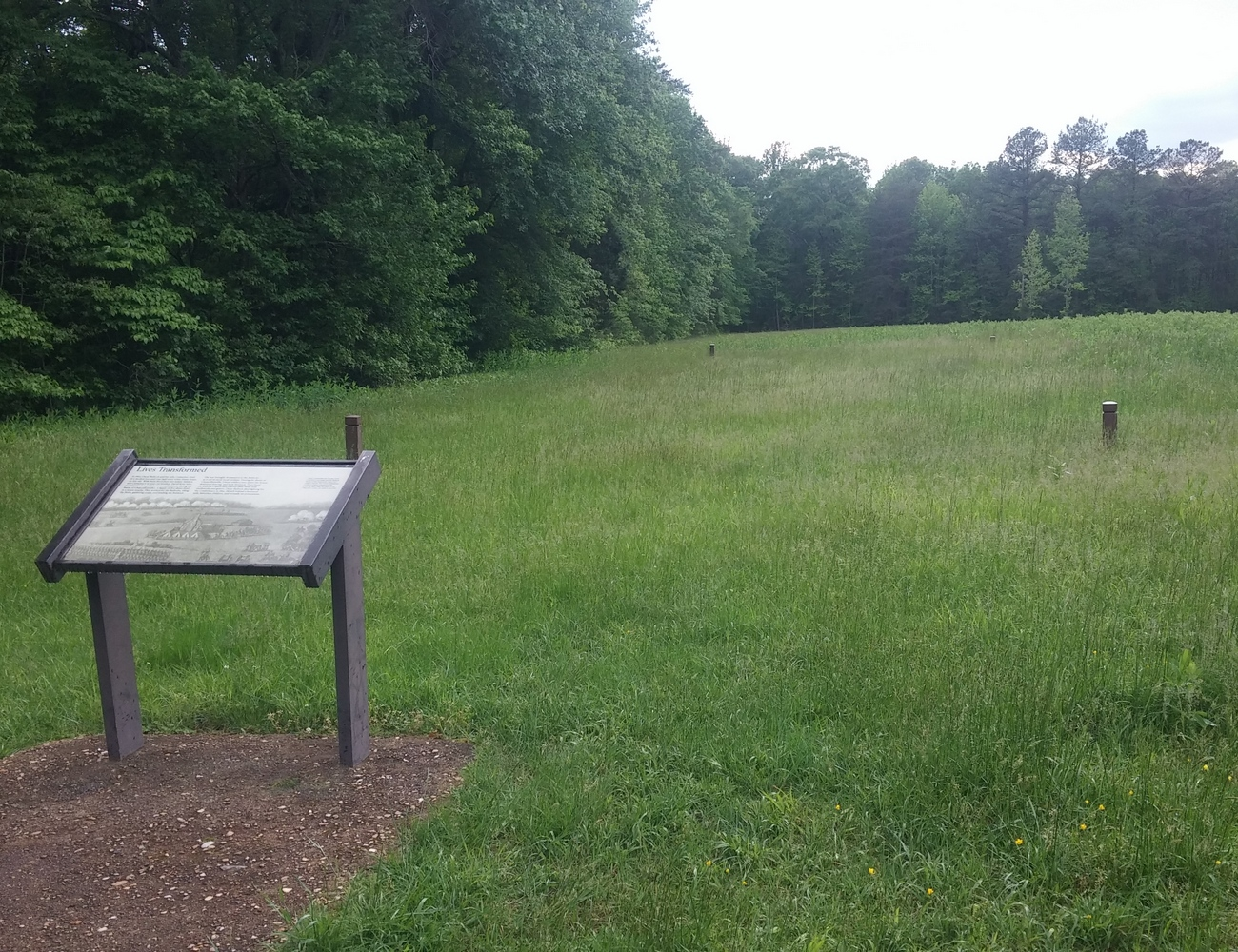 Bullock house site at Chanсellorsville battlefield.